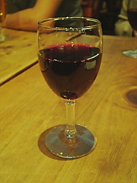 Glass of Beaujolais wine.